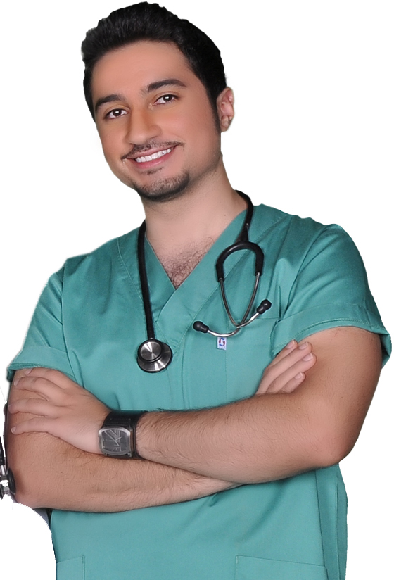 Portrait photo of Dr. Mohamed Al-Shaaban for his show Healthy Minutes.